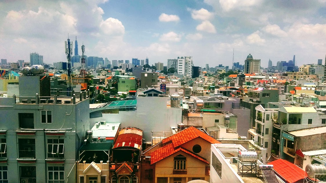 Bình Thạnh District from above, taken from 121 Hoàng Hoa Thám street